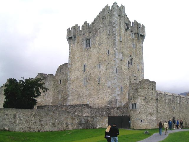 Ross Castle, Killarney This castle, which is right next to Lough Leane, was built in the late 15th century. For more info